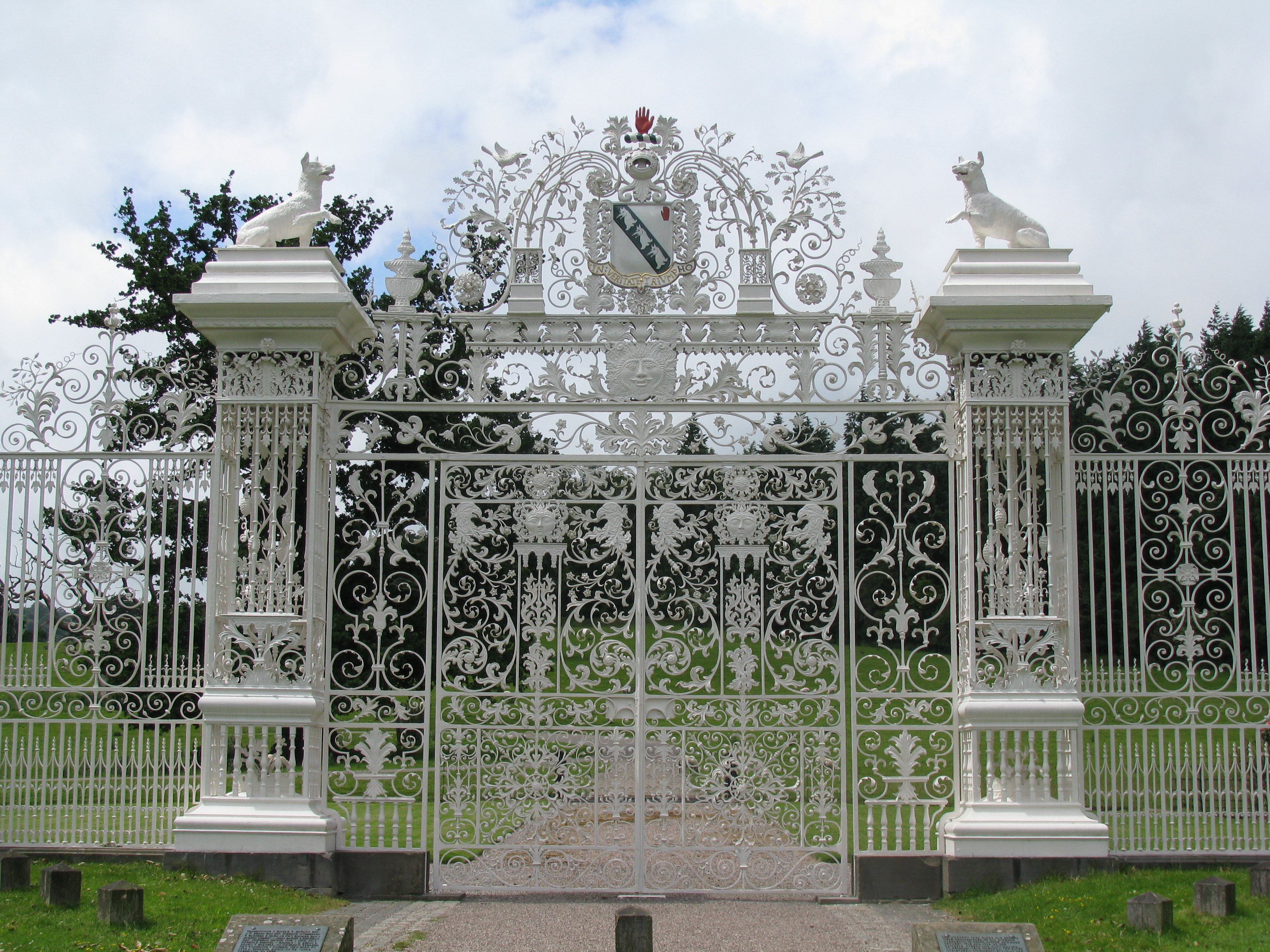 Chirk Castle gate, Chirk, Wales, UK.